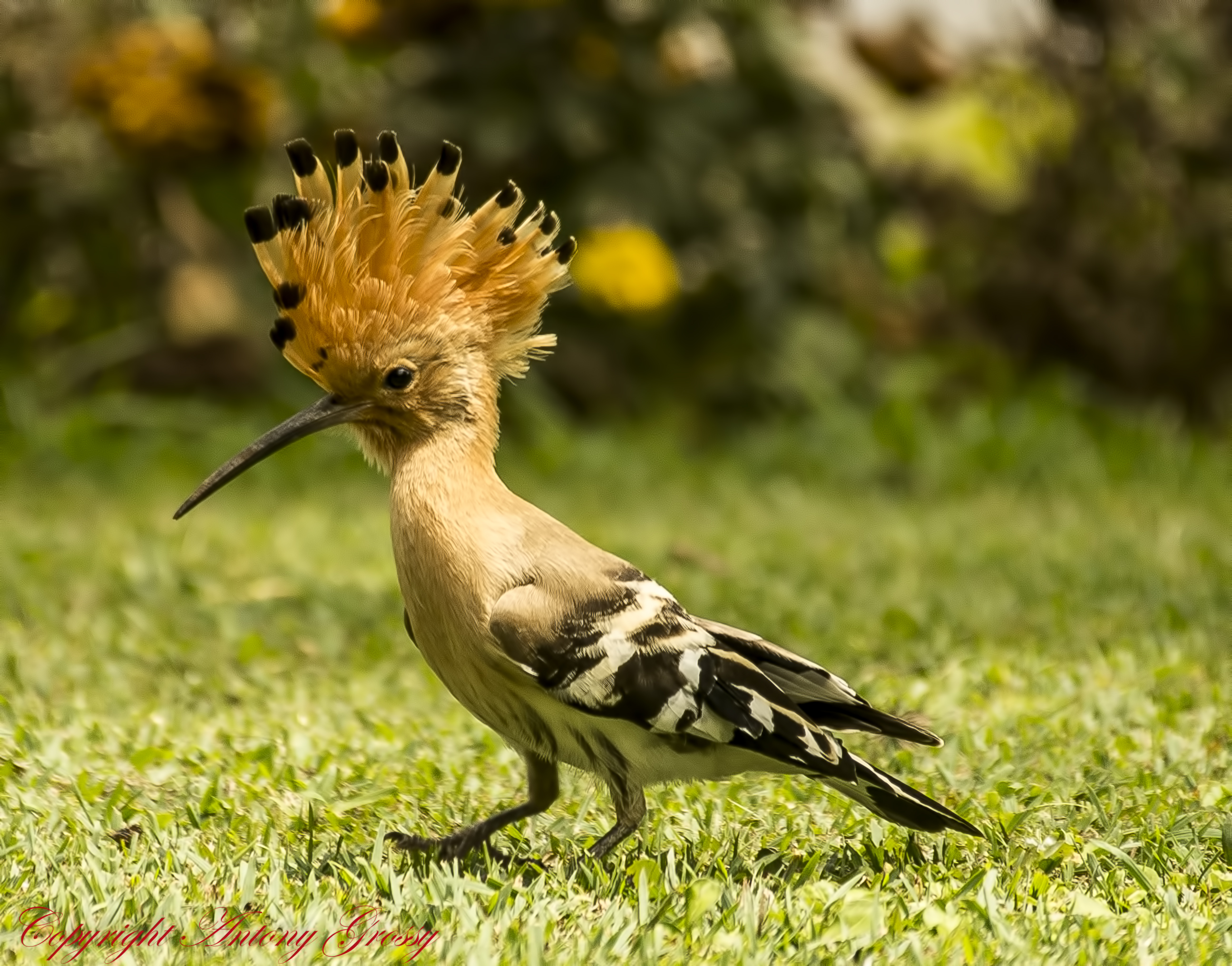 The Hoopoe (Upupa Epops) is a colourful bird that is found across Afro-Eurasia, notable for its distinctive 'crown' of feathers. It is the only extant species in the family Upupidae. The Hoopoe is a medium sized bird, 25–32 cm (9.8–12.6 in) long, with a 44–48 cm (17.3–19 in) wingspan weighing 46–89 g (1.6–3.1 oz). The species is highly distinctive, with a long, thin tapering bill that is black with a fawn base. The strengthened musculature of the head allows the bill to be opened when probing inside the soil. The hoopoe has broad and rounded wings capable of strong flight; these are larger in the northern migratory subspecies. The Hoopoe has a characteristic undulating flight, which is like that of a giant butterfly, caused by the wings half closing at the end of each beat or short sequence of beats.